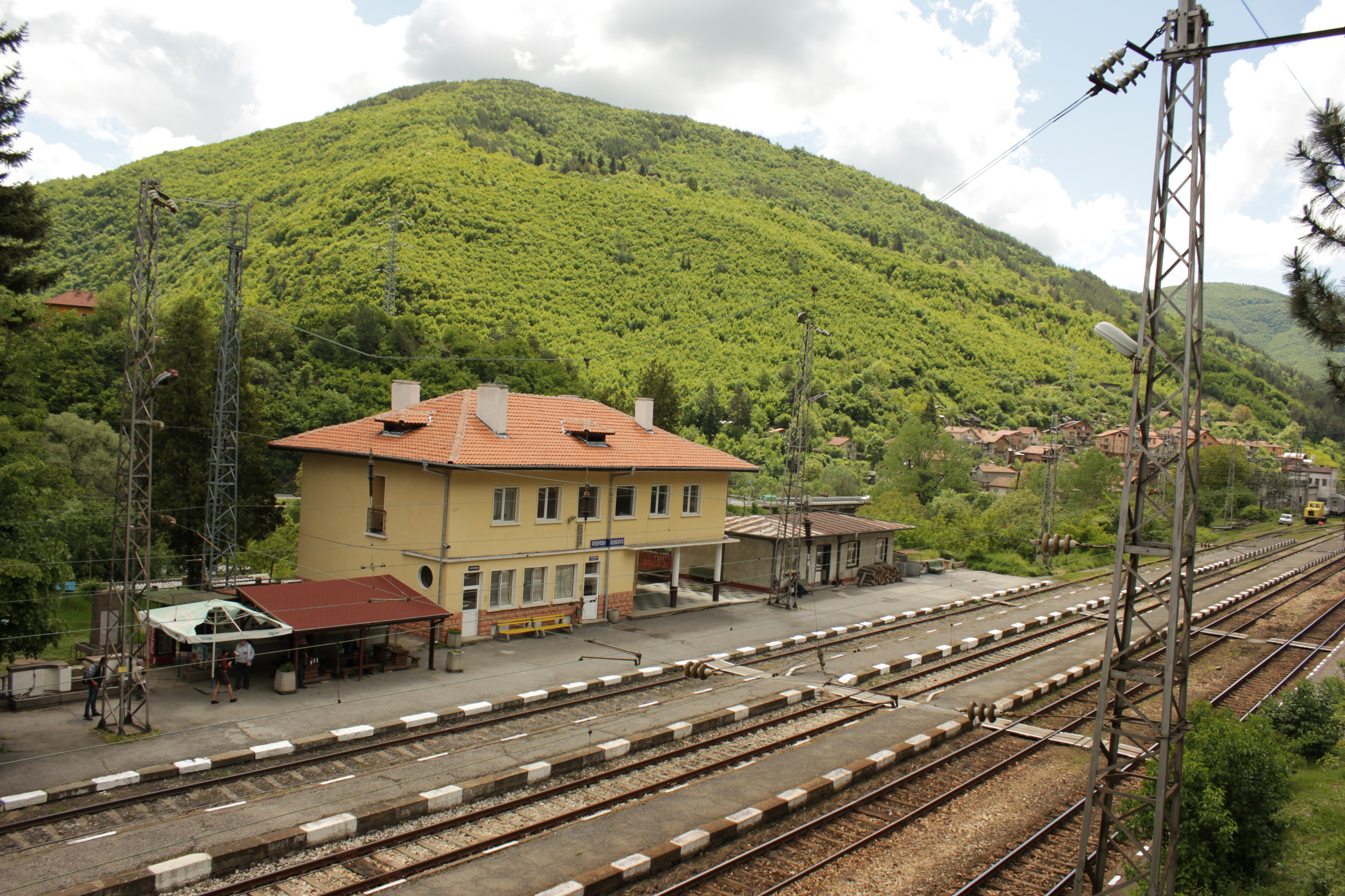 Rebrovo Traim Station